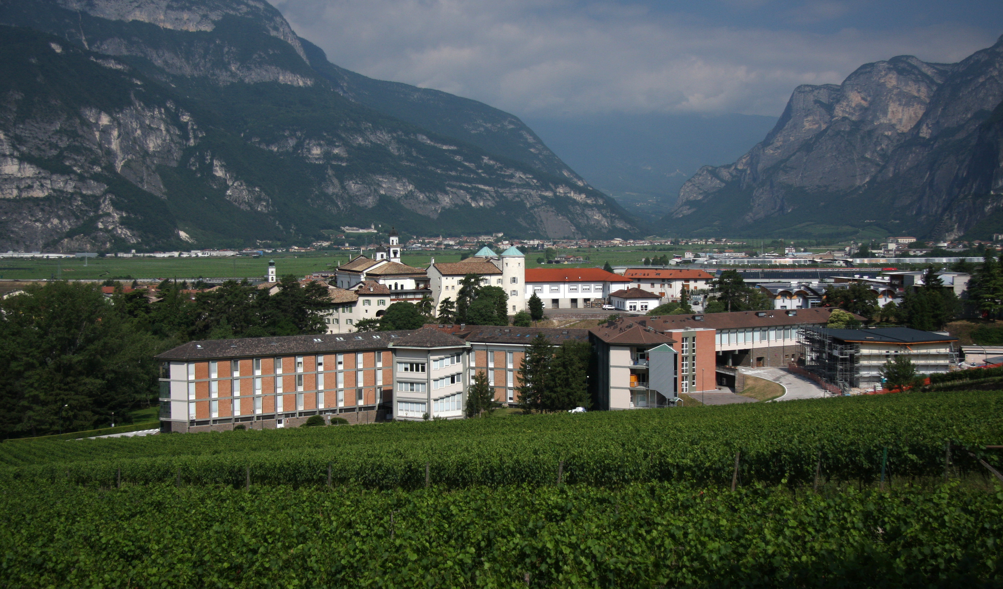 Fondazione Edmund Mach in San Michele all'Adige (TN), Italy - northern part of the campus